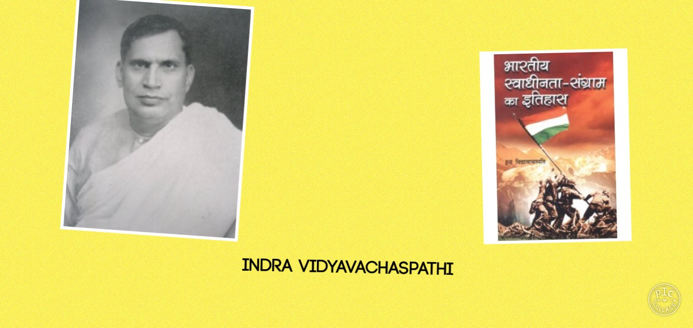 Indra vidyavachaspathi